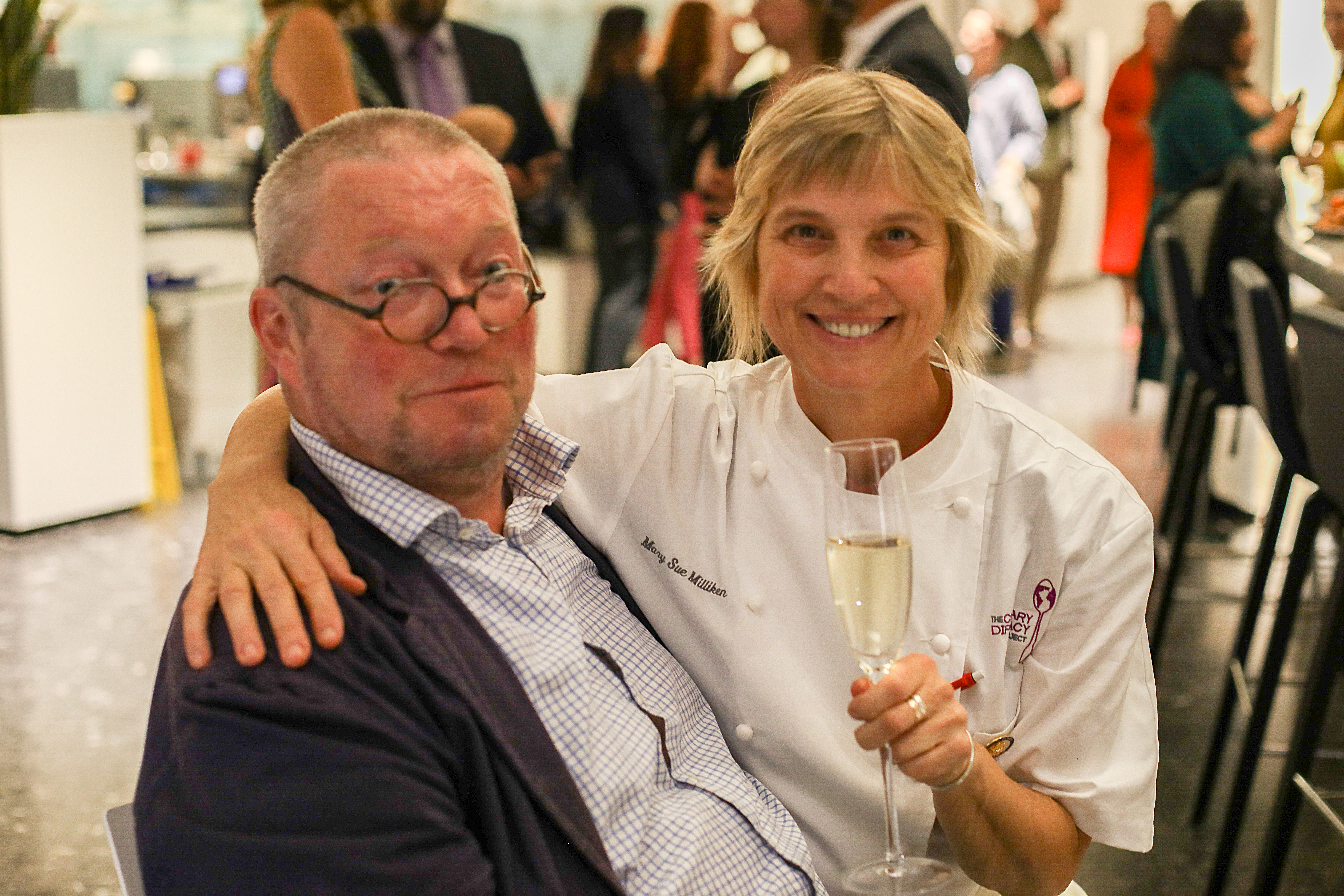 Chef Mary Sue Milliken (Border Grill Restaurant) and Chef Fergus Henderson (St. John Restaurant) host a dinner at the U.S. Embassy London